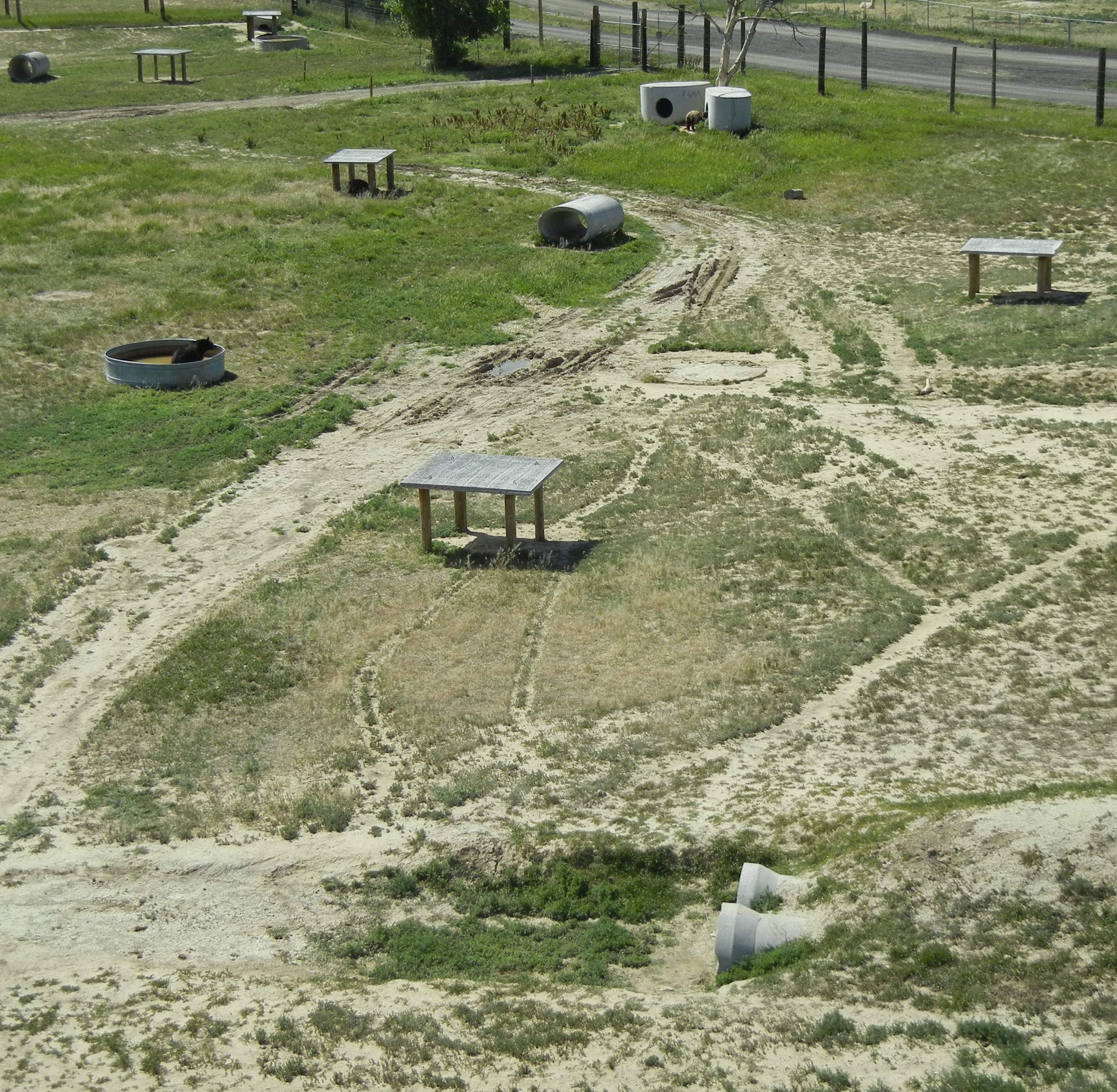 One of the bear enclosures at The Wild Animal Sanctuary, with shade structures, a large water tank, and constant temperature "dens" in the foreground.